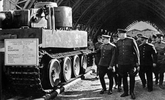 Marshal Georgy Zhukov, along with Colonel-General Nikolay Voronov and Marshall Kliment Voroshilov, inspecting a captured Tiger I heavy tank